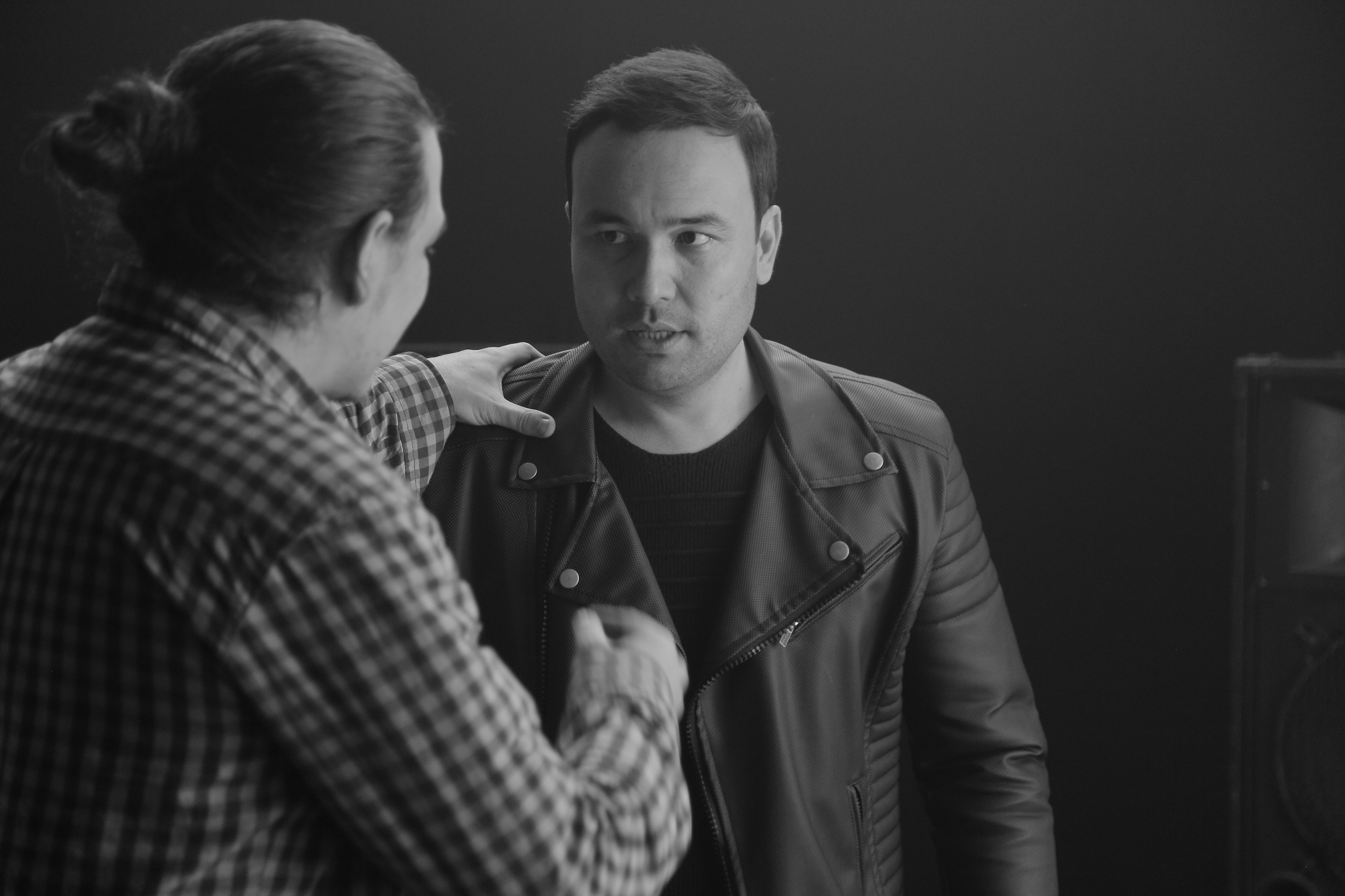 Renat Sobirov on the set of his new music video on November 23, 2018, in Tashkent, Uzbekistan.